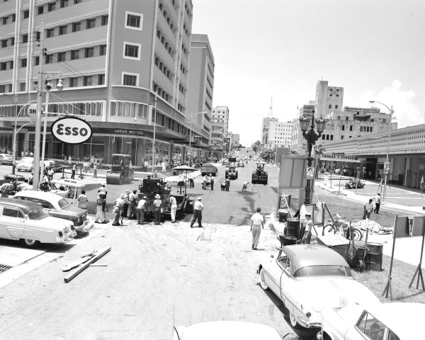 La Rampa_Calle Infanta y 23, Vedado, La Habana, Cuba. década del 50